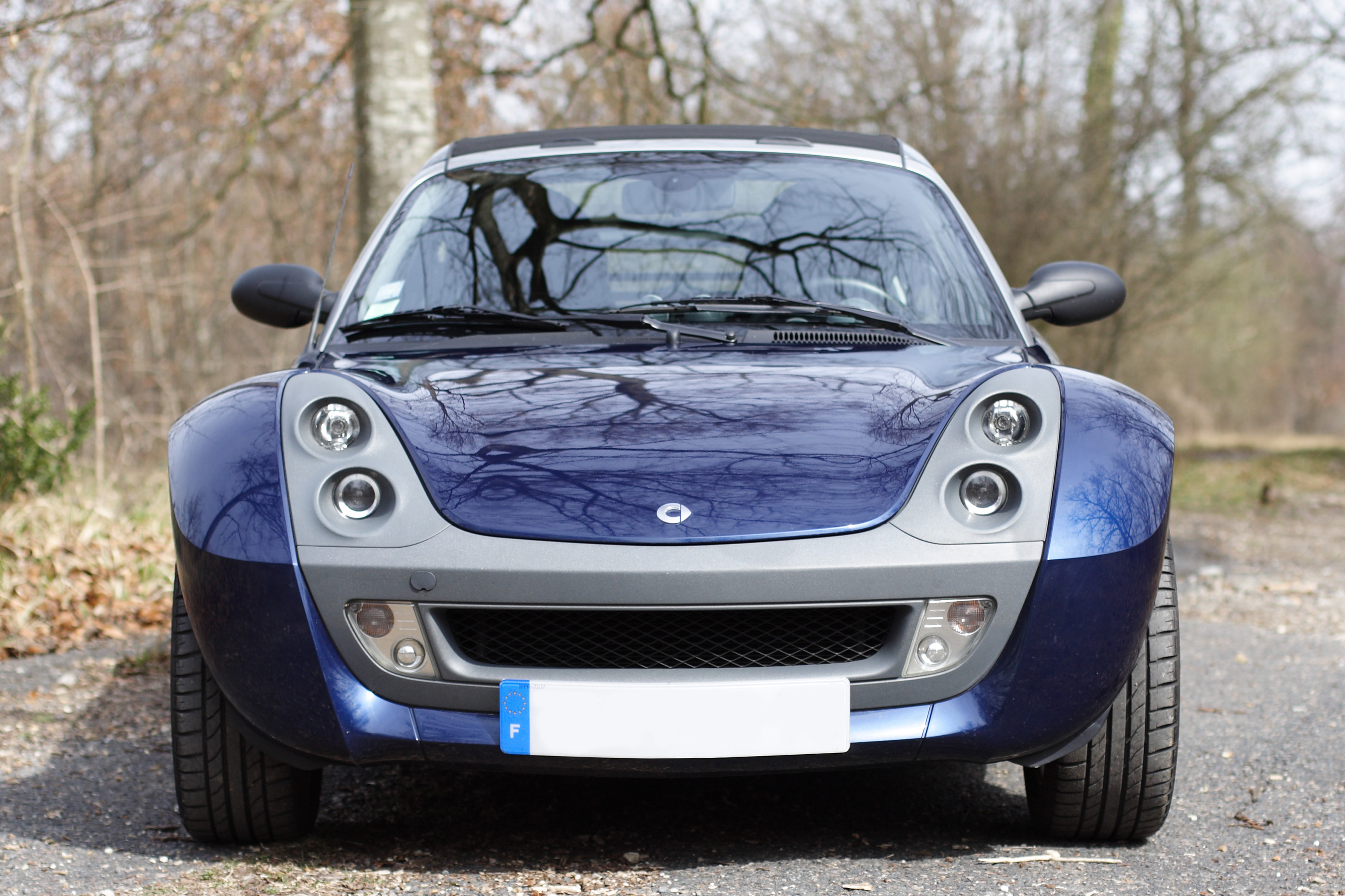 Smart Roadster Coupé. This is a 2004 model, serial number 37040 out of 43091, with a Star Blue (C85L/EAF) paint and grey Tridion (C02L/EB2). It is equipped with sport pack and comfort pack. Picture taken with a Canon EOS 350D and Canon 50mm F1.4 @ F2.8.